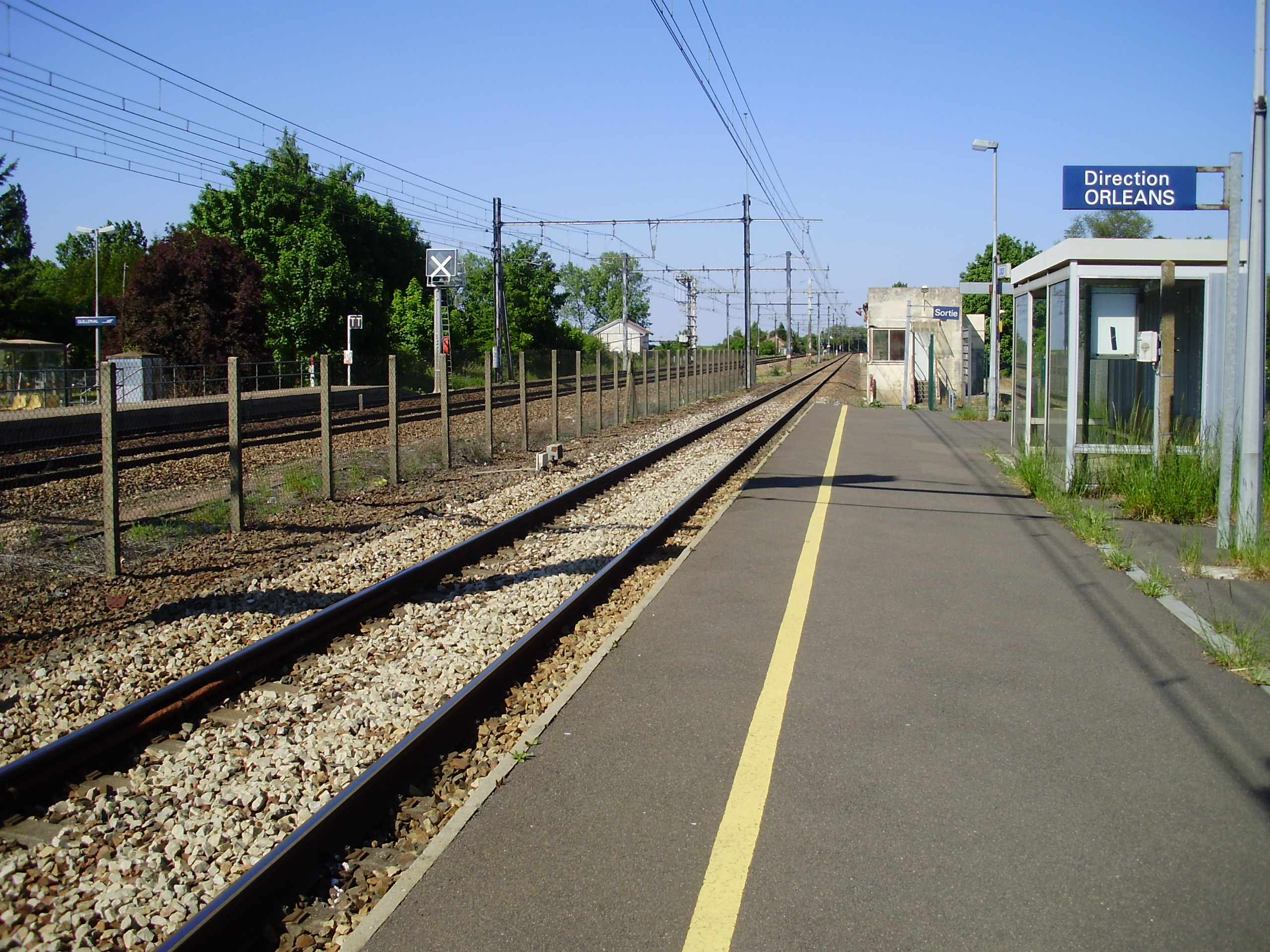 Guillerval station, Essonne, France (platform to Orléans, wiew towards Paris)